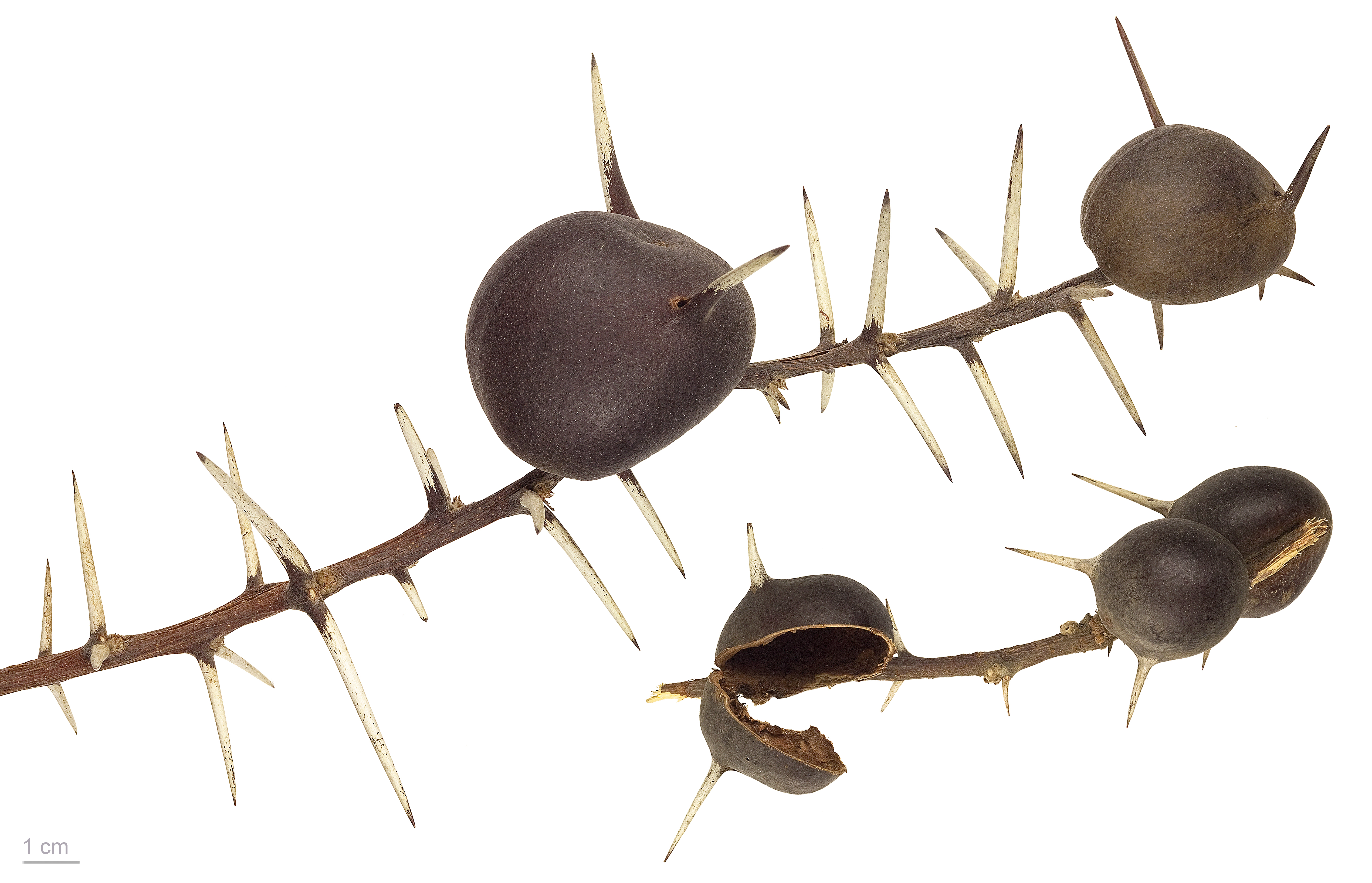 Whistling Thorn , galls on the edge of the thorn, shelter for the cocktail ants